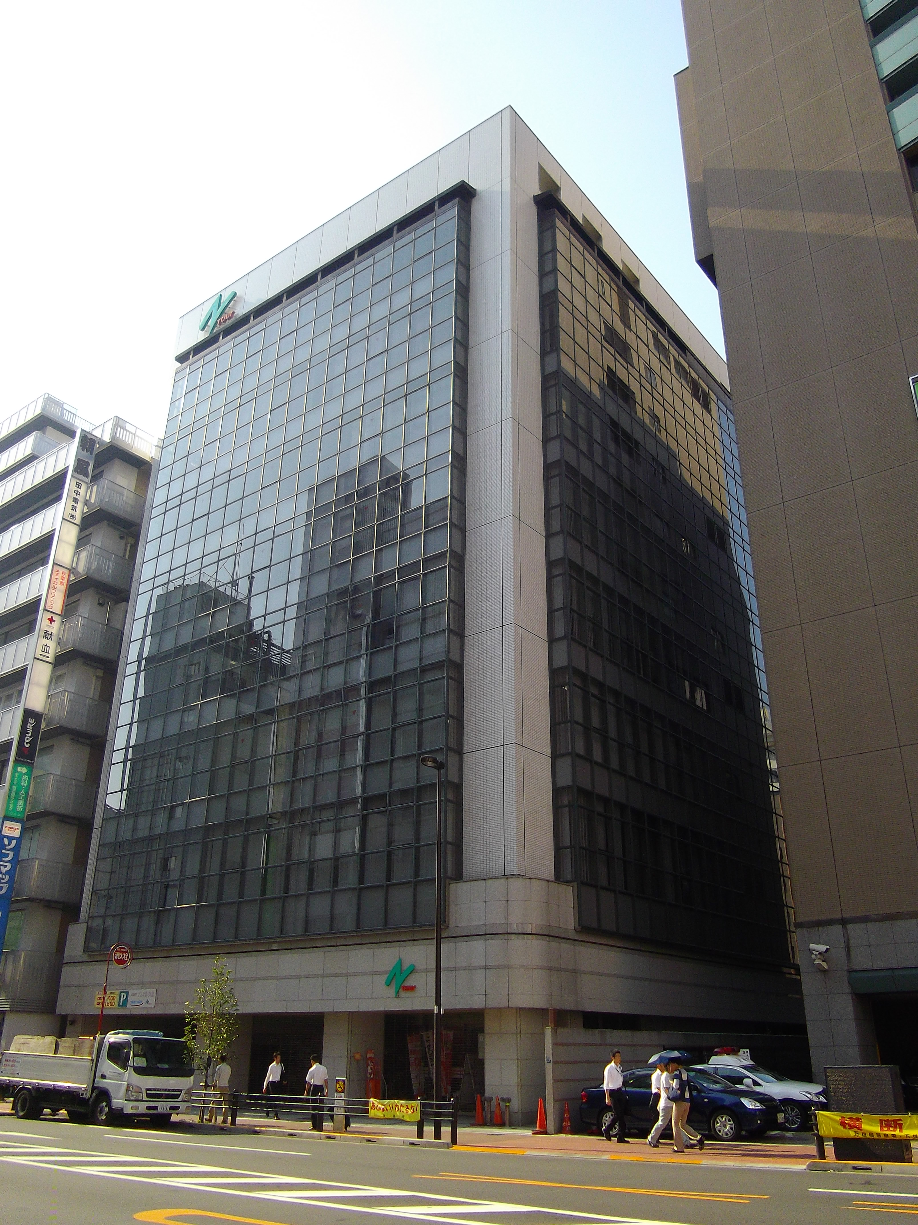 Nokyo Tourist Head Office in Sotokanda, Chiyoda-ku, Tokyo.